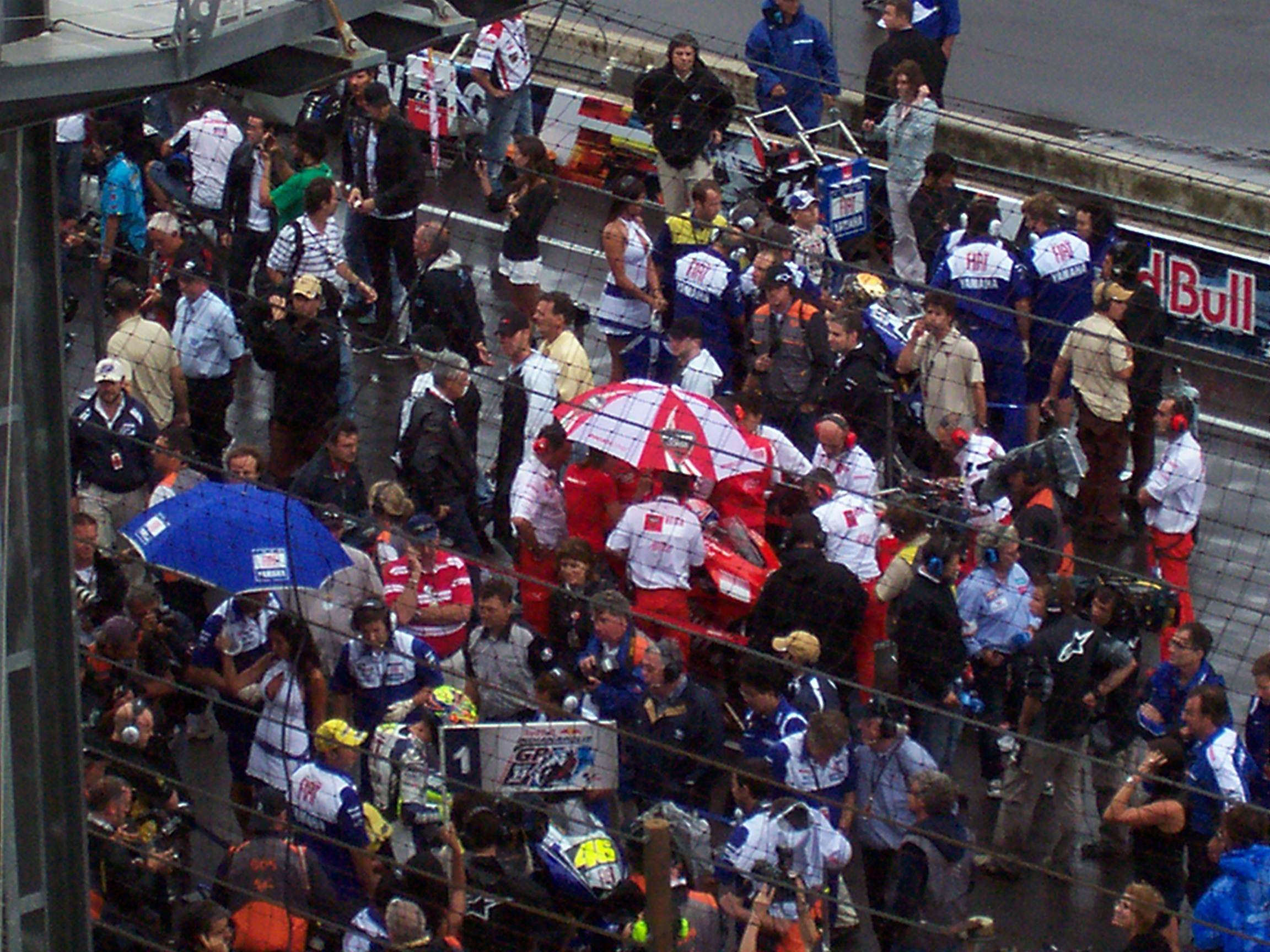 The front row for the 2008 Indianapolis motorcycle Grand Prix. From bottom to top, pole sitter Valentino Rossi, 2nd place starter Casey Stoner, and 3rd place starter Jorge Lorenzo.